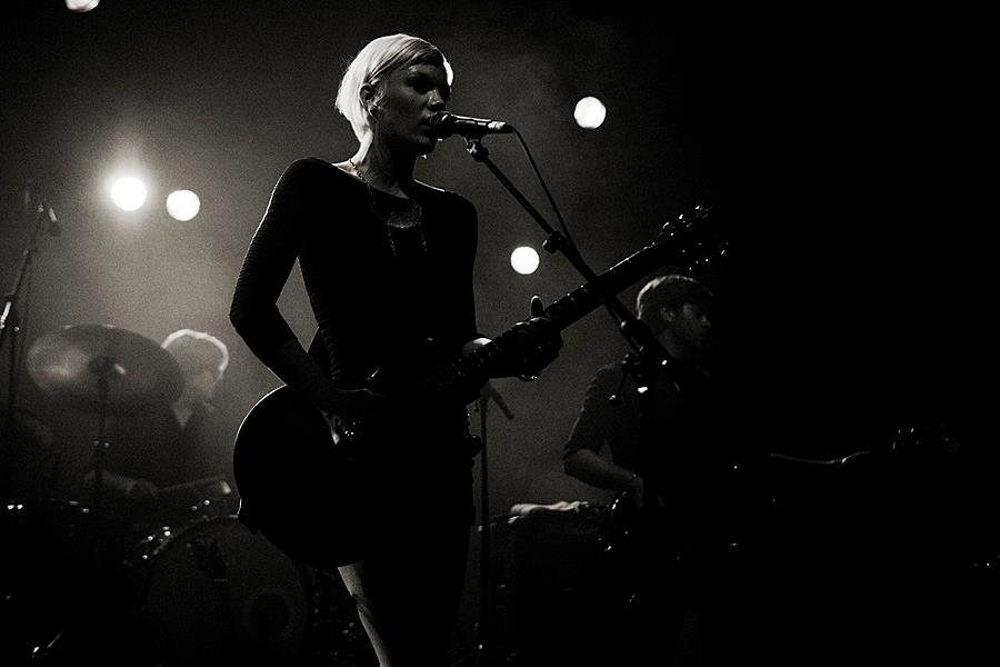 Trixie Whitley at Openlucttheater, 2012.